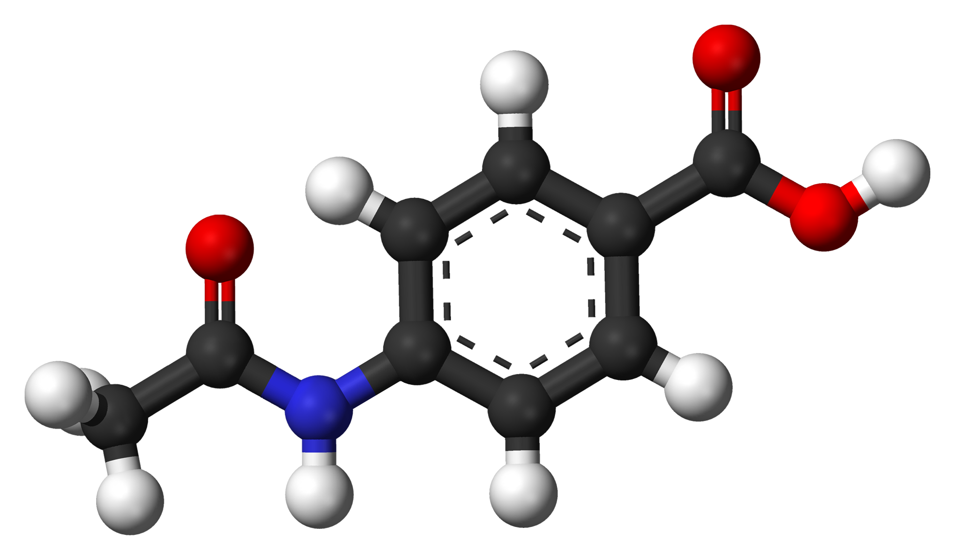 Ball-and-stick model of the acedoben molecule.